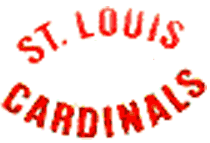 St. Louis Cardinals (now Arizona Cardinals) wordmark.